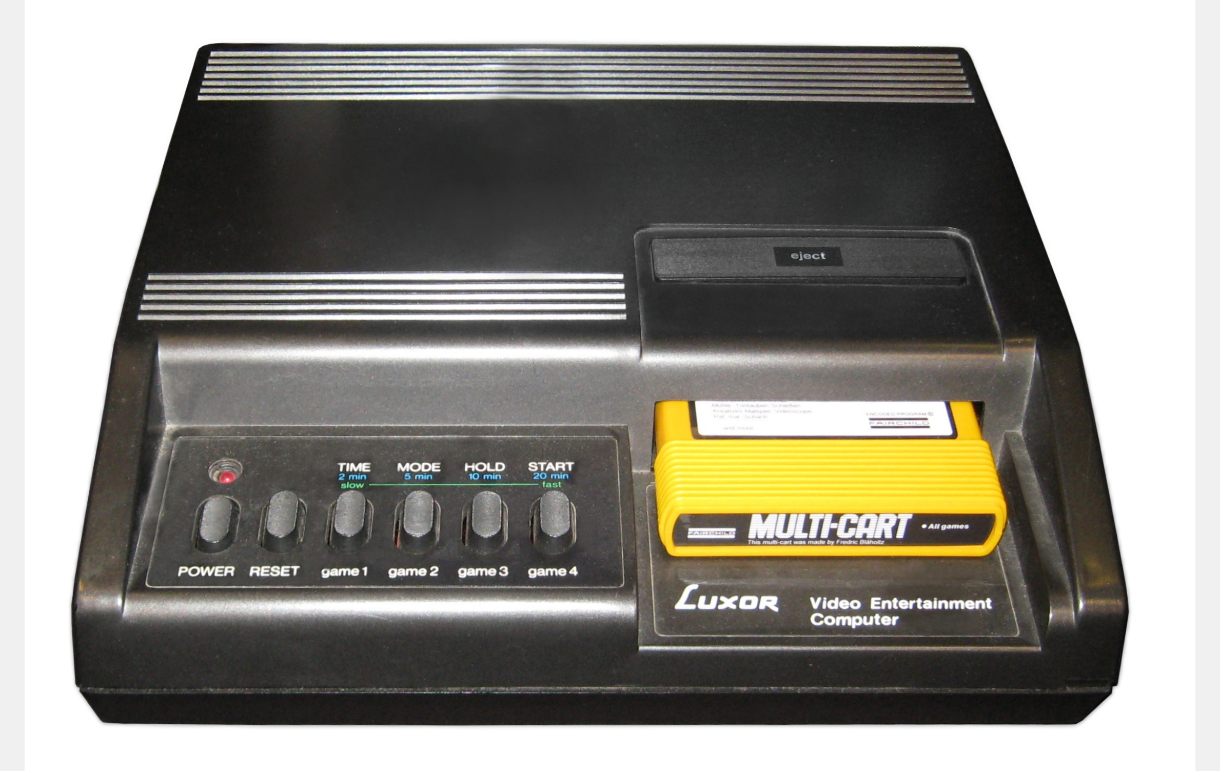 Luxor Video Entertainment Computer. Licensed version of the Fairchild Channel F.